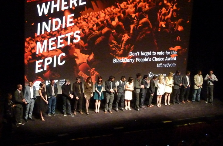 The cast of Joss Whedon's "Much Ado About Nothing" at the Toronto International Film Festival screening.